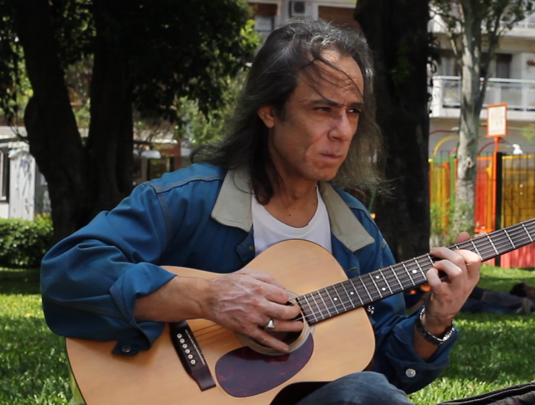 Argentine guitarist José Luis Fernández in 2014.